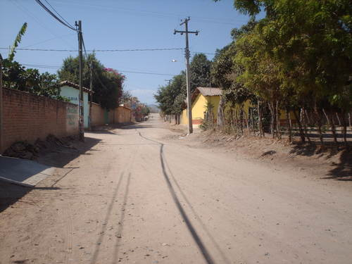 Is a small town Pineda,Gro.